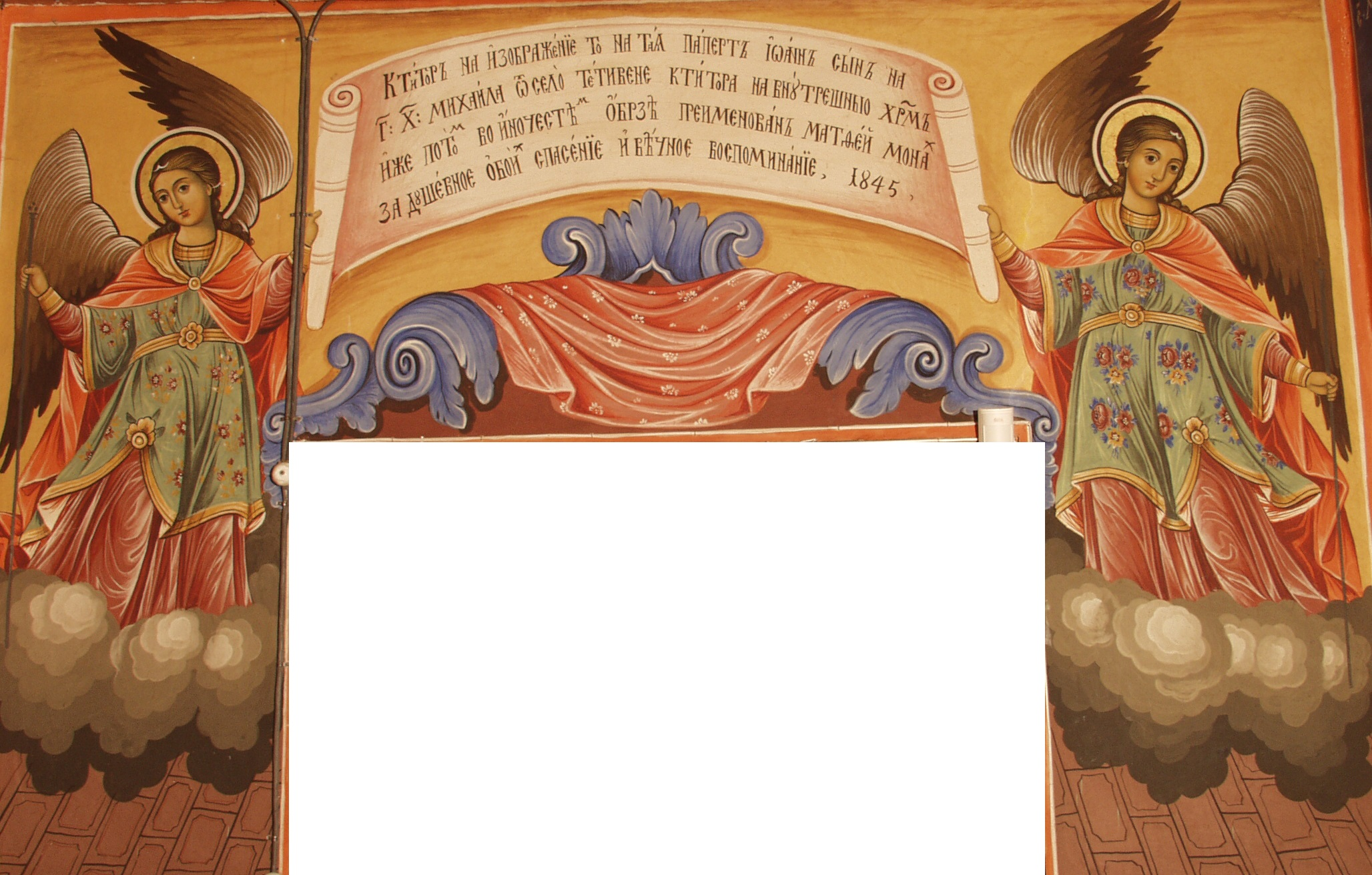 Archangels Chapel in Rila Monastery Ktetor's_Inscription_-_1845